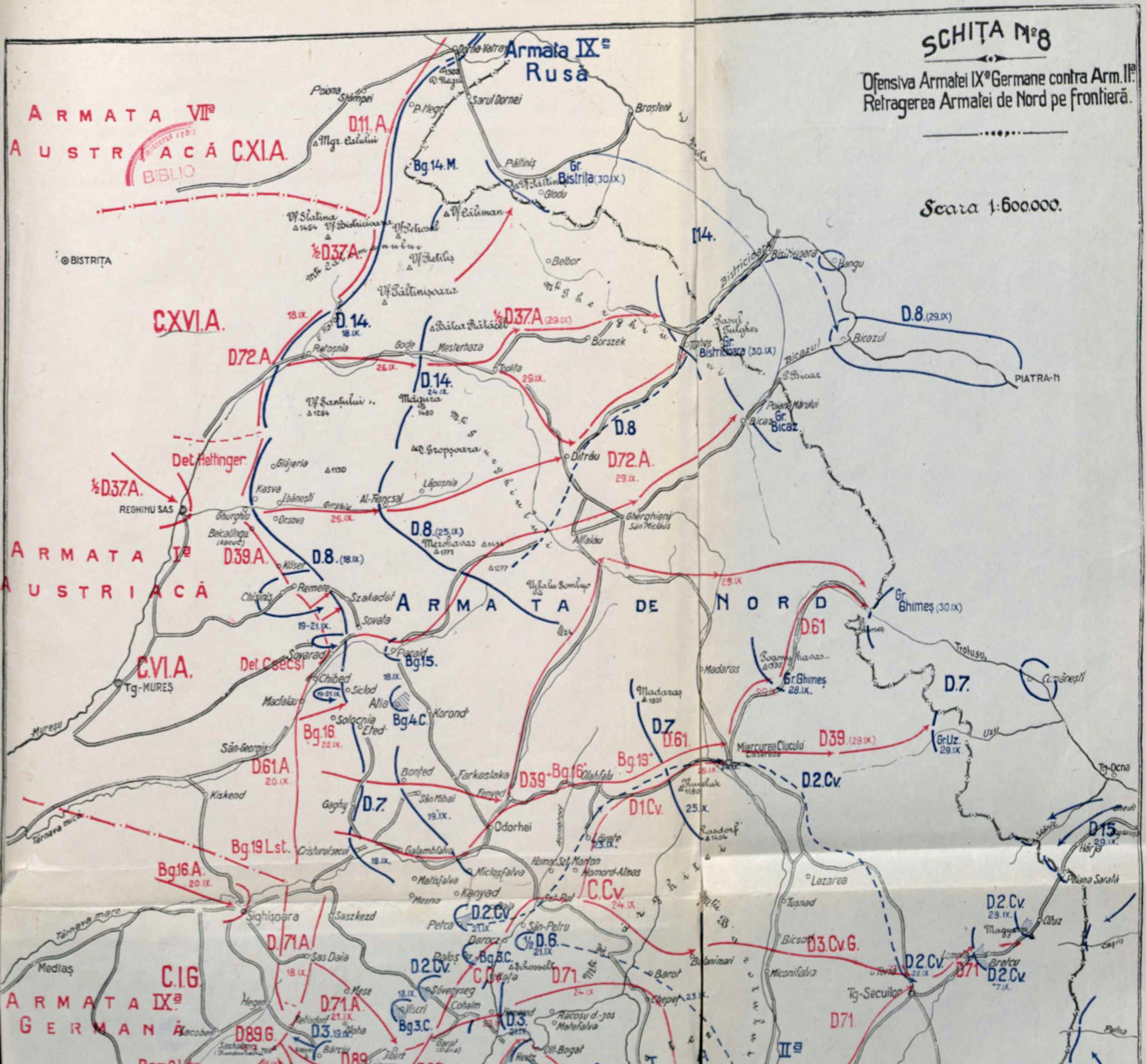 Military operations conducted by the forces belonging to the Armata de Nord (Romania), during the campaign of the 1916